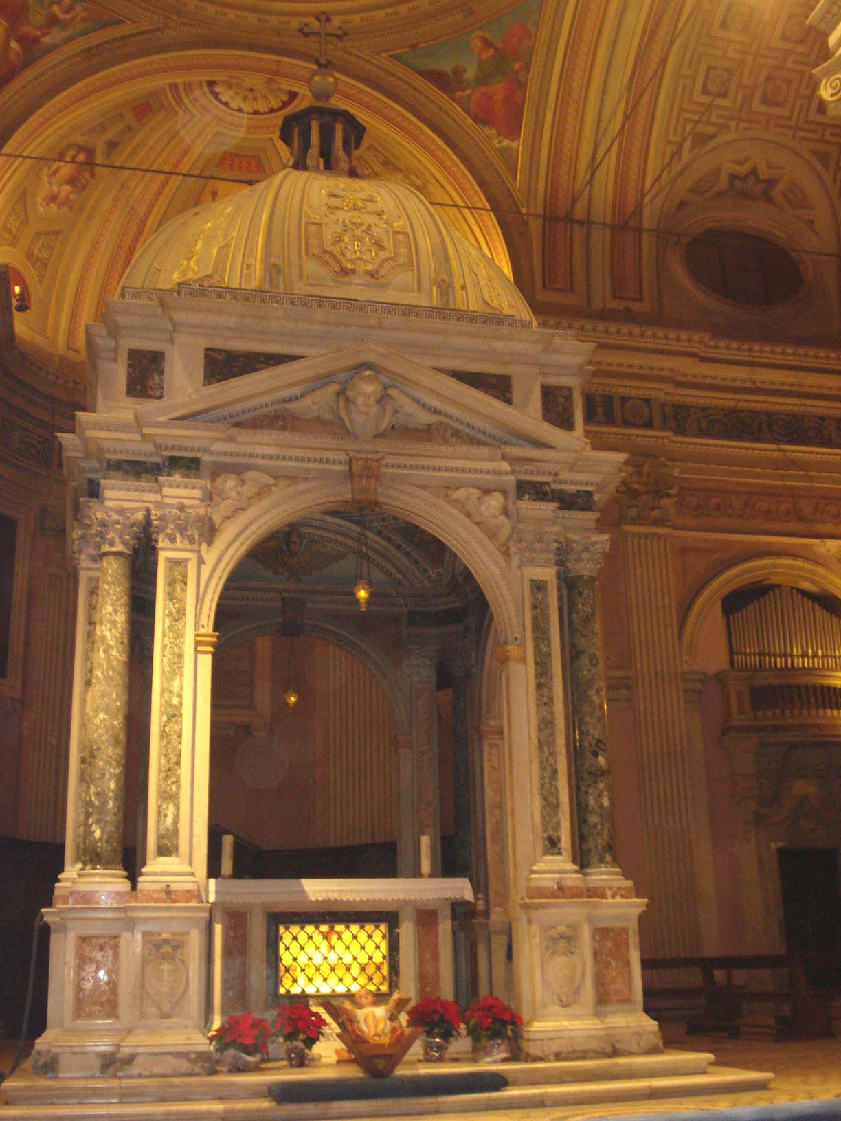 High altar with St Bonifacius's and St Alexis's relics